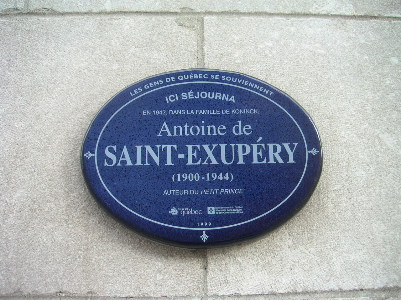 The historical marker outside of a house in Quebec City, Canada, where Antoine de Saint-Exupery stayed in 1942.